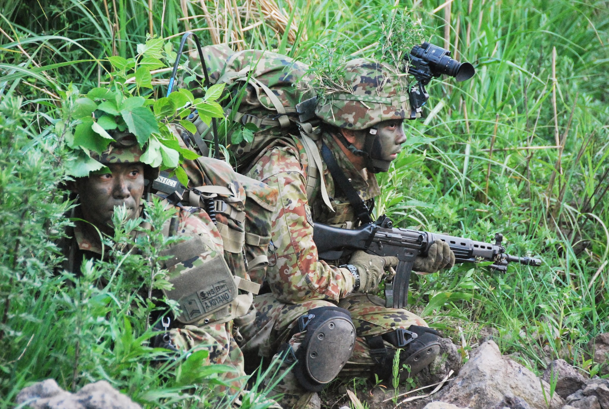 Title 25.05.23~31 ３２ｉ・第２次連隊野営訓練(25.6.3受信・松崎３曹)警戒中.JPG Album 教育訓練等 偵察訓練（第３２普通科連隊・大宮）